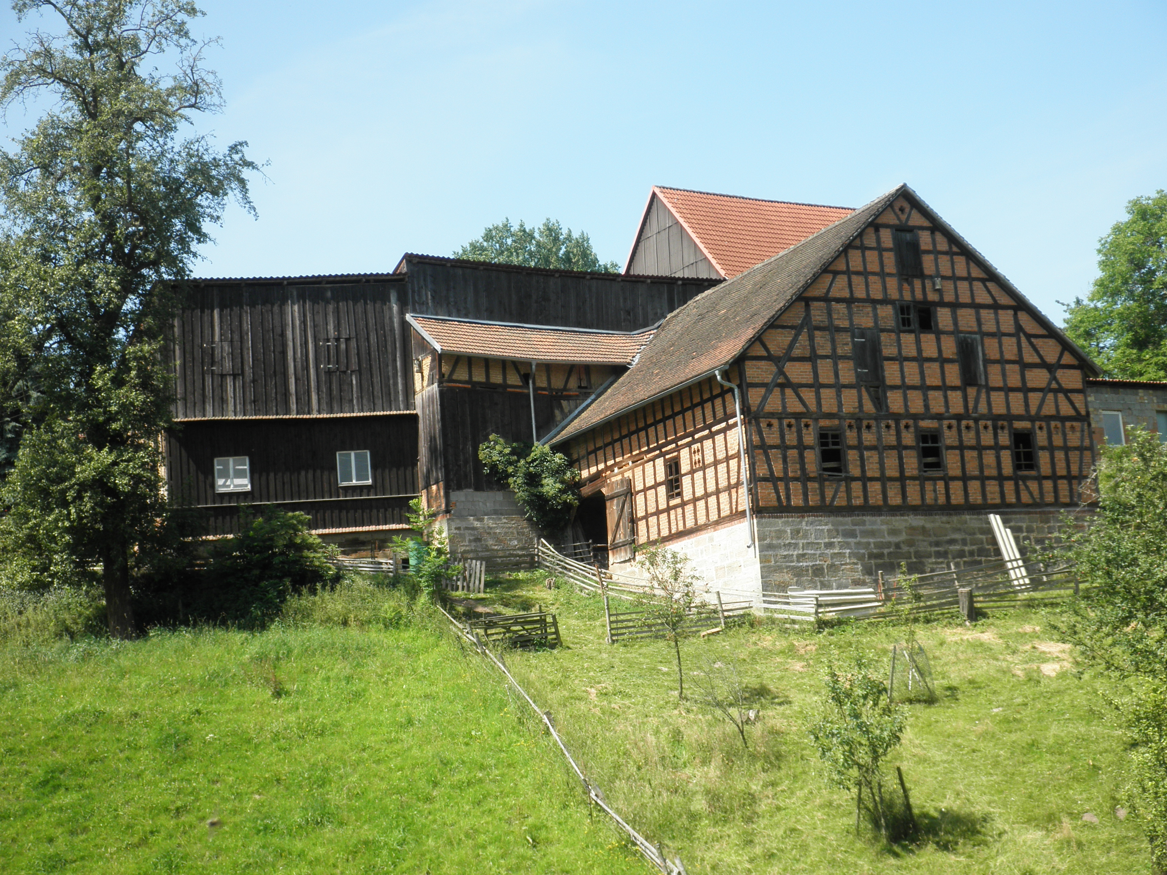 Old Building in Ulrichswalde in Thuringia